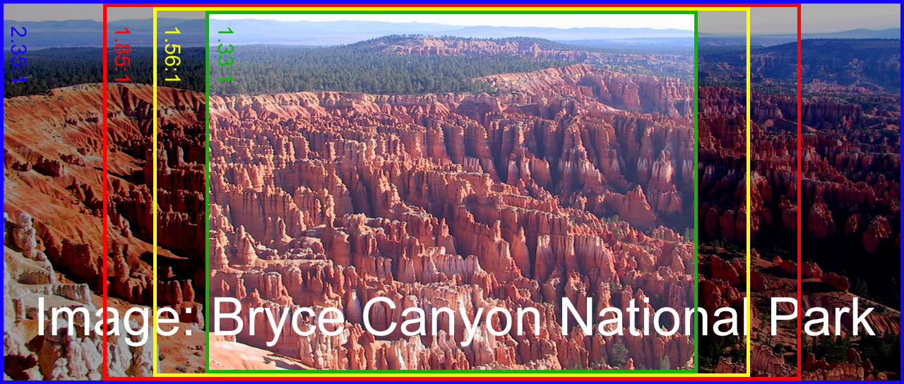 Image cropping Letterboxed 1.37:1 (Cinéma projection) and 1.33:1 (4:3 Vidéo). Inspired by Aspect ratios.png by Wapcaplet, using the same colours for 2.35:1, 1.85:1 and 1.33:1, just added yellow for 1.55:1. Background picture resized to 1280x544 pixels.